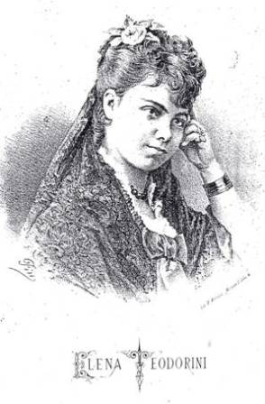 Elena Teodorini Teatro alla Scala Milano